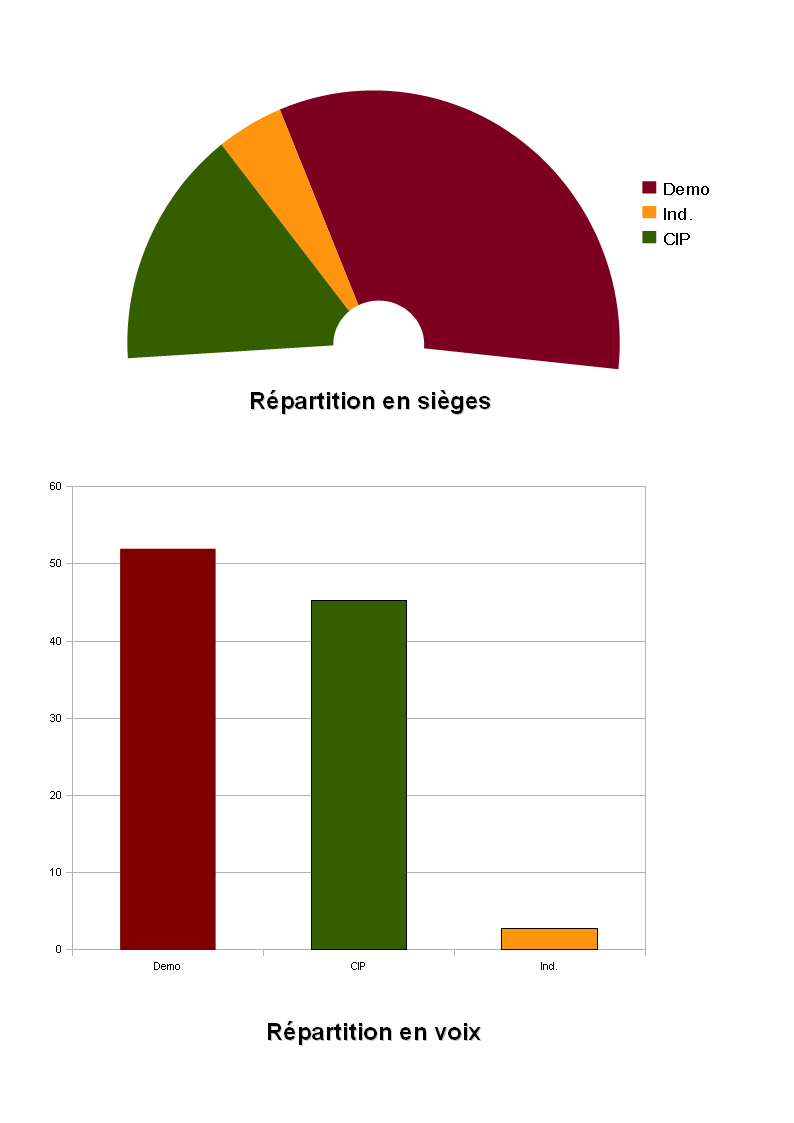 2006 Cook Islands General elections